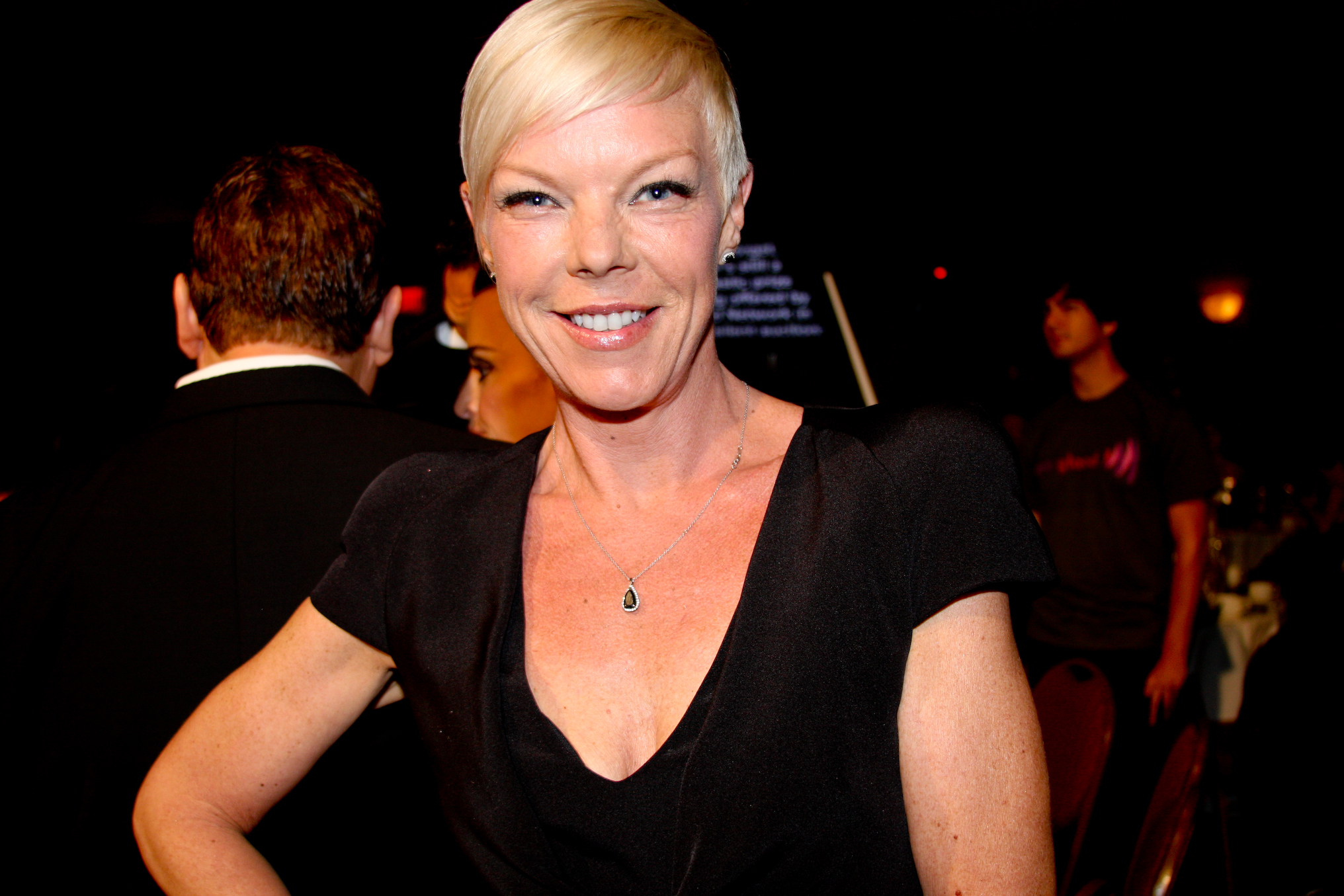 Tabatha Coffey at the GLAAD Awards 2012